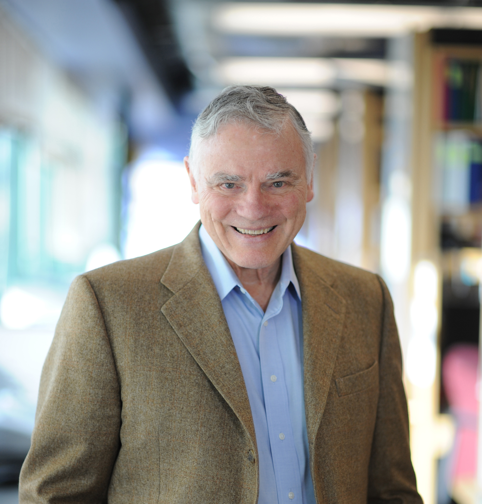 Lee Hood, MD, PhD, President and Co-found of the Institute for Systems Biology